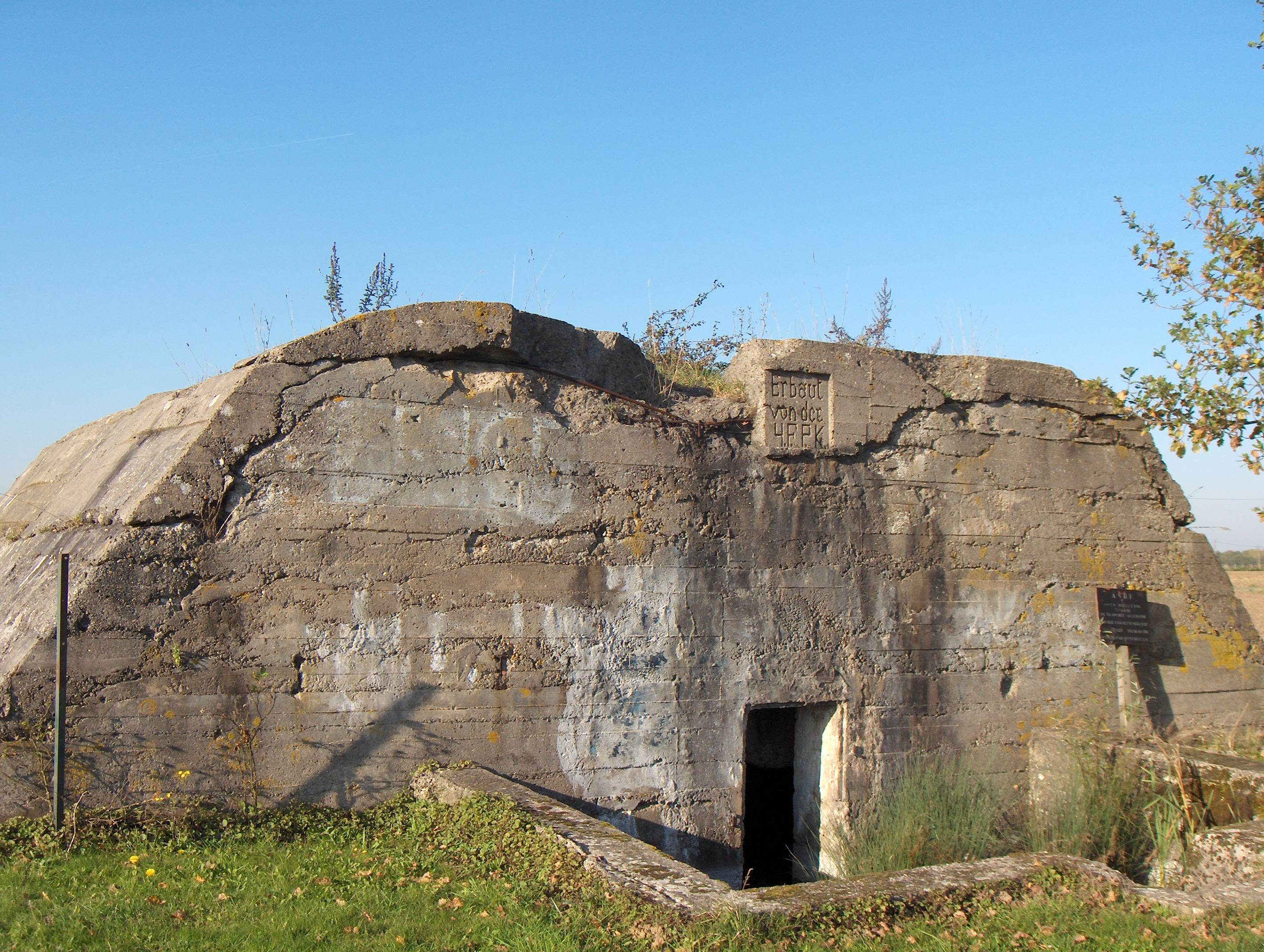 German bunker from the First World War between Fromelles and Aubers (France, Dept. Nord), west of road D14. Constructed by the german 4th Company of Fortress-Engineers